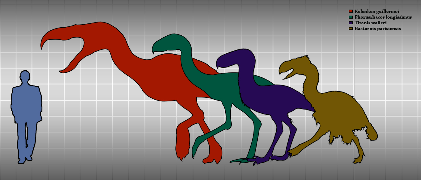 Size comparison between a human and some of the better known large, flightless, extinct predatory birds: Kelenken, Phorusrhacos, Titanis and Gastornis.